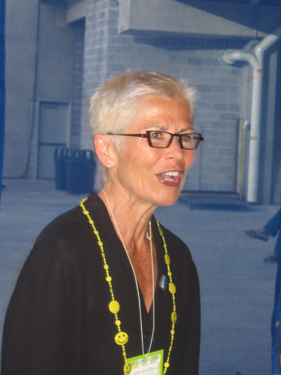 Comedian Kate Clinton at Gay Games VII in Chicago.Kate Clinton